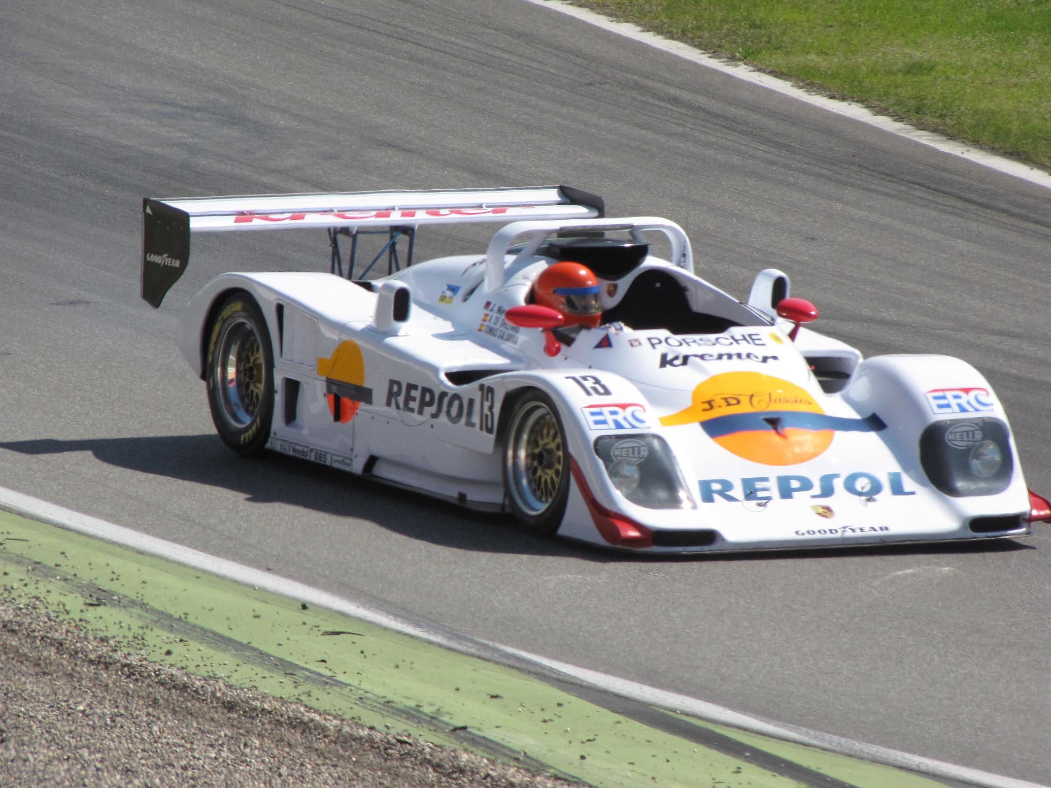 Kremer K8 at Hockenheim Historic 2010